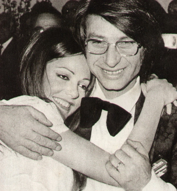 Italian singers Nicola Di Bari and Nada at the Sanremo Music Festival